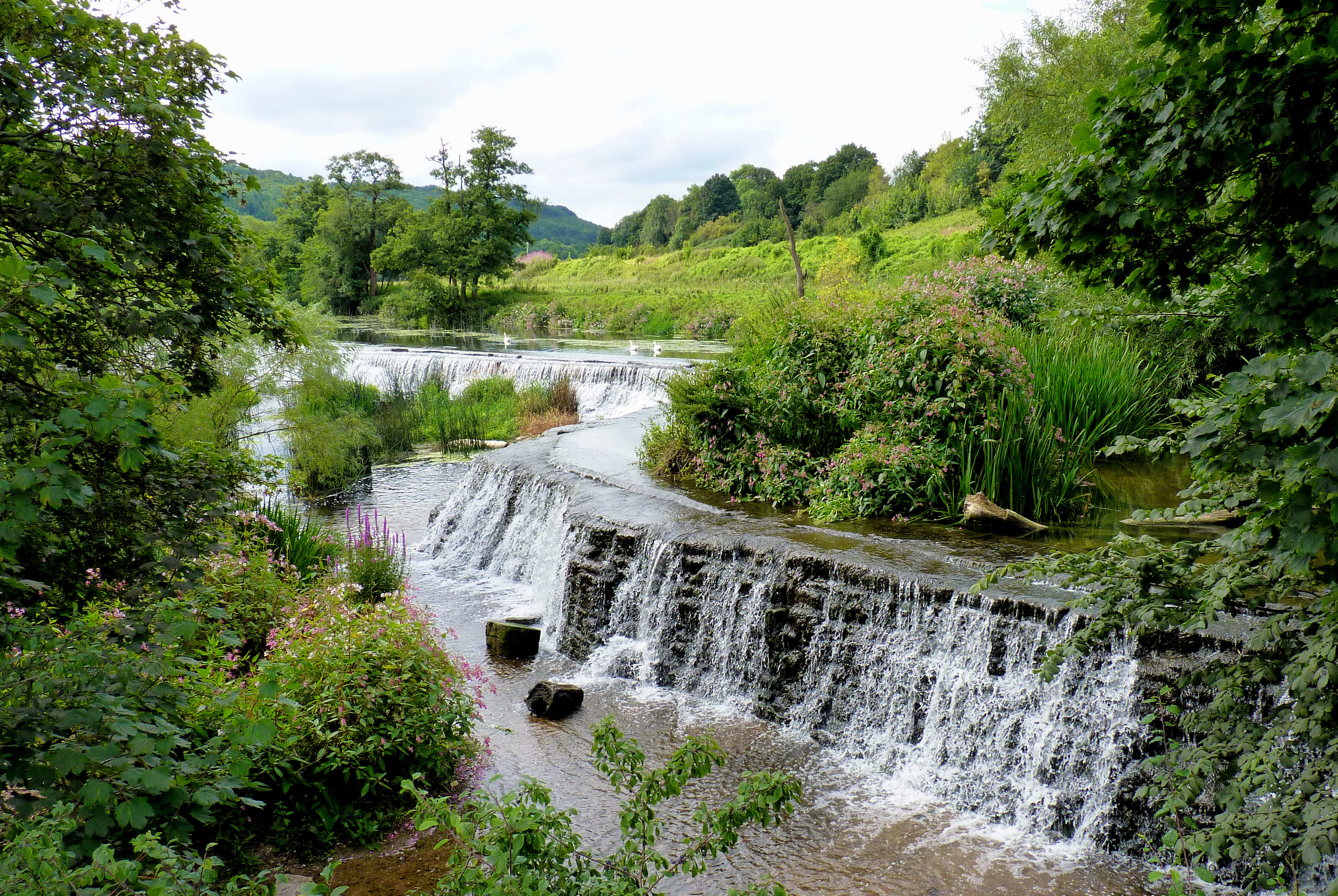 Weir to Claverton Pumping Station. A very picturesque spot on the river Avon. Seems to be a river swimming spot, according to some web sites. Taken from Ham Meadow near Claverton pumping station. Ham meadow was the place in 3rd - 4th July 1643 Waller (parliamentarian ) built a bridge to access the other side of the river Avon to ambush the Royalist force approaching from Bradford upon Avon.